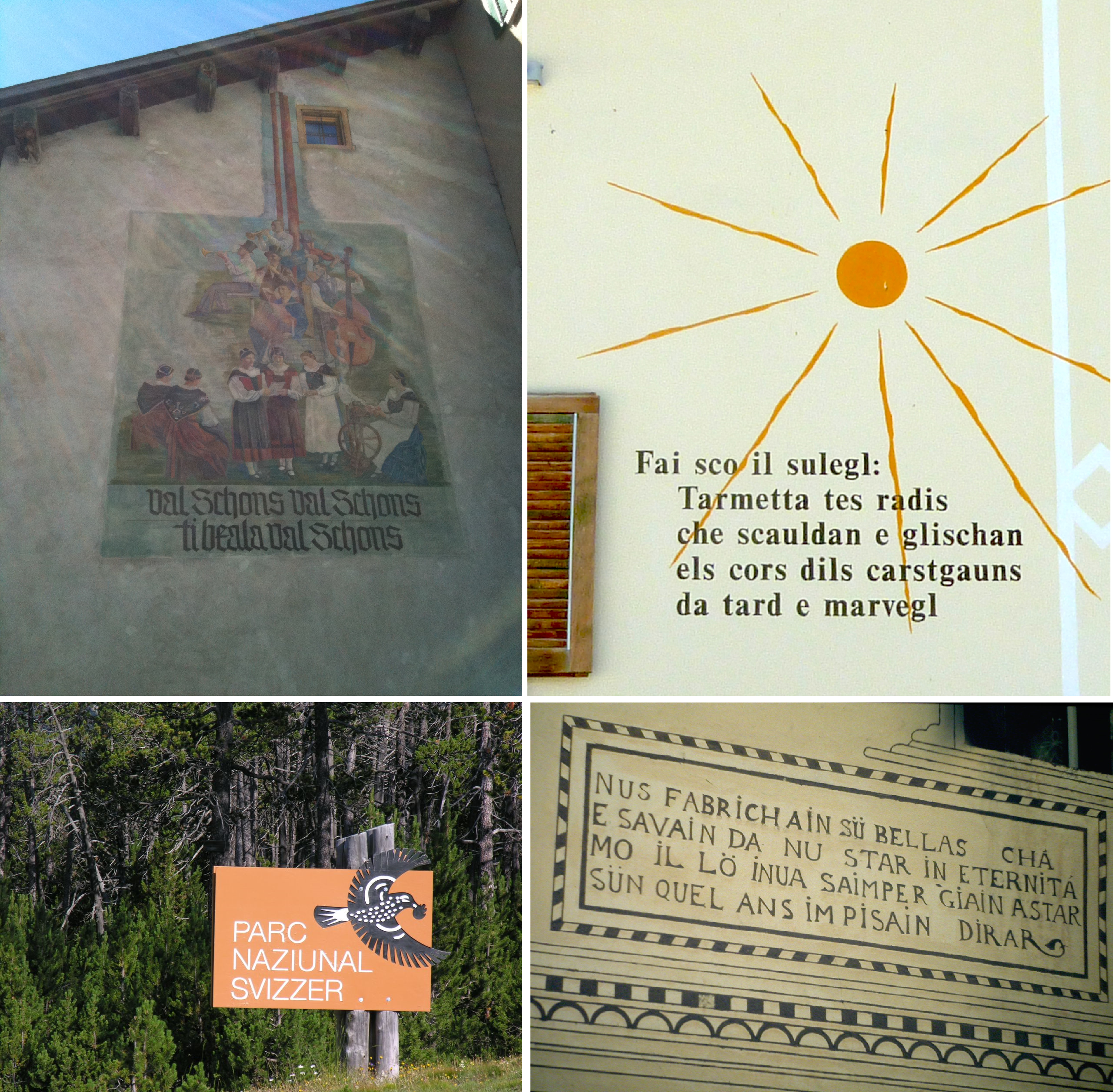 Pictures illustrating the Romansh language. List of source files (from top left to right)